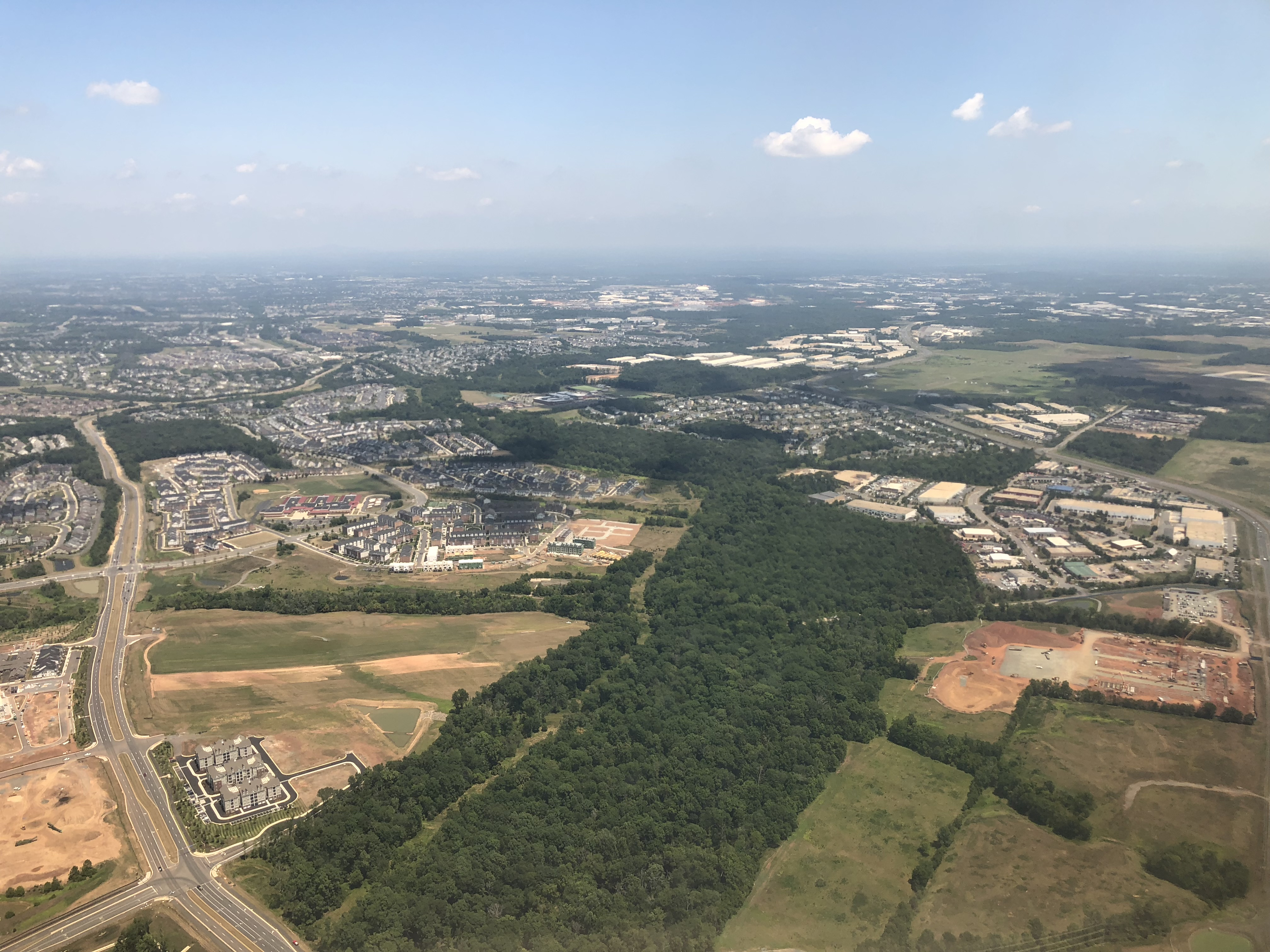 View northeast along Broad Run as it passes between the Loudoun County Parkway and Old Ox Road on the edge of the Dulles section of Sterling, Arcola, Brambleton and Loudoun Valley Estates in Loudoun County, Virginia, viewed from an airplane which just took off from Washington Dulles International Airport